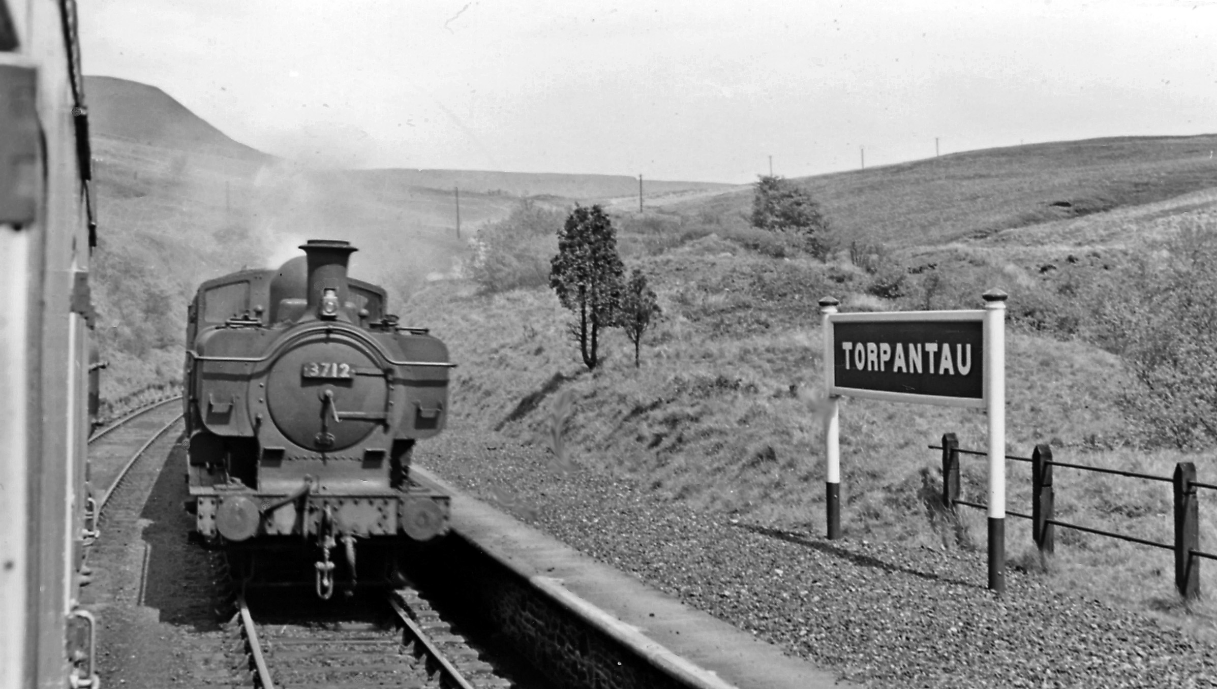 Torpantau Station: meeting a Brecon - Newport train. View northward, towards Torpantau Tunnel, Talybont and Brecon: ex-Brecon & Merthyr (Brecon - Dowlais section), later GWR. The down train, headed by standard '8750' class 0-6-0PT No. 3712 (built 11/36) has just surmounted the fearsome climb of seven miles (the "Seven-Mile Bank") at about 1-in-40 from Talybont-on-Usk, while my train headed for Brecon has come up a similar climb from Pontsticill Junction. The narrow-gauge Brecon Mountain Railway from Pant terminates just short of here but aims to reach this point. On the left is the outline of the Brecon Beacons.